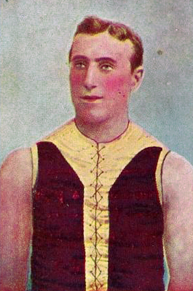 Cigarette card of Les Millis from the 1905 Wills Past and Present Champions series.